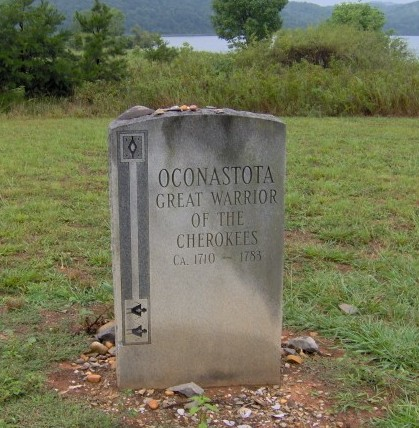 Oconastota's grave at the Chota memorial, in Monroe County, Tennessee. Image by Brian Stansberry|user:Bms4880 | Brian Stansberry.